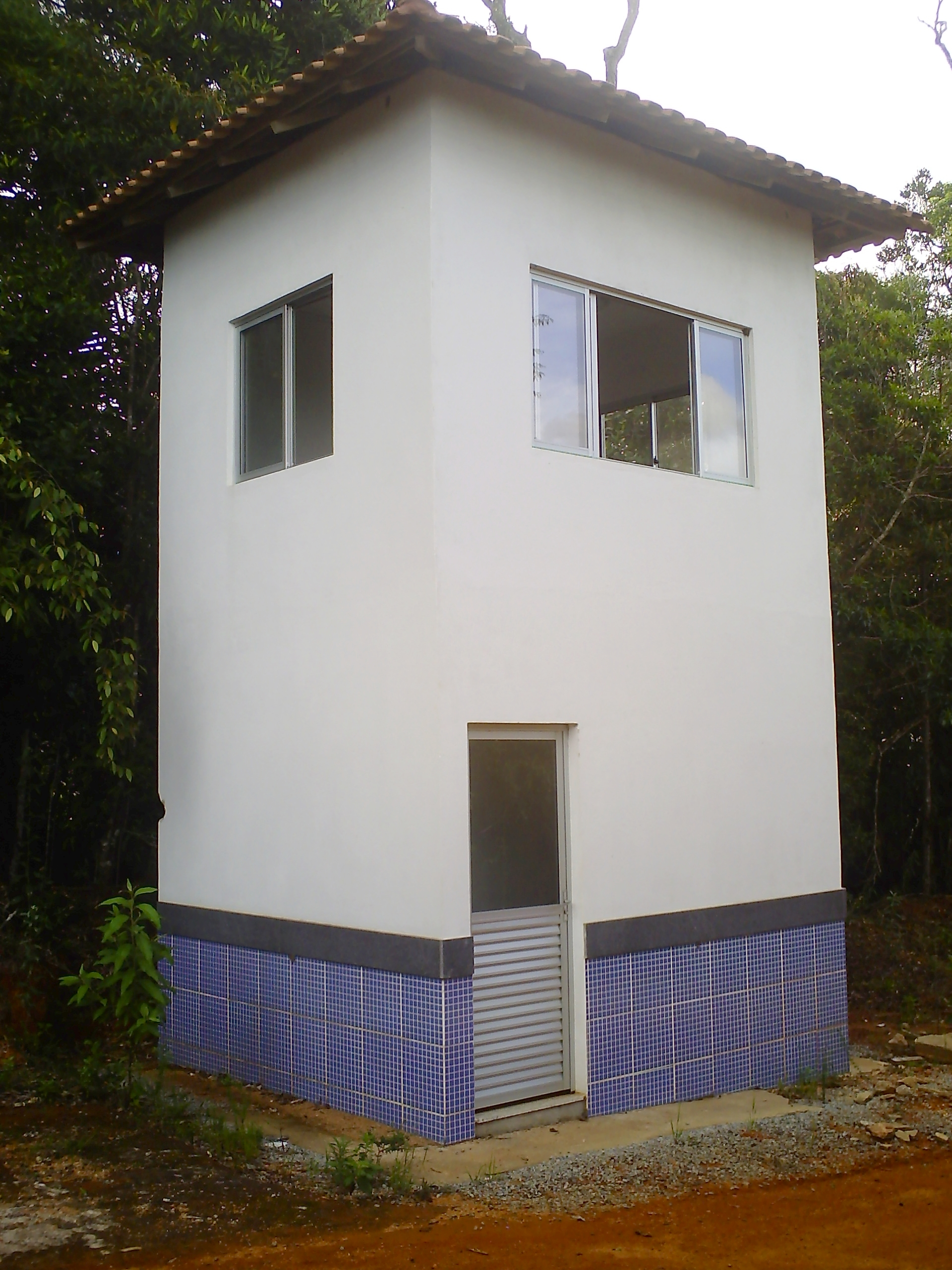 Cabin at Goiapaba-Açu Municipal Park, at Fundão, Espírito Santo, Brazil